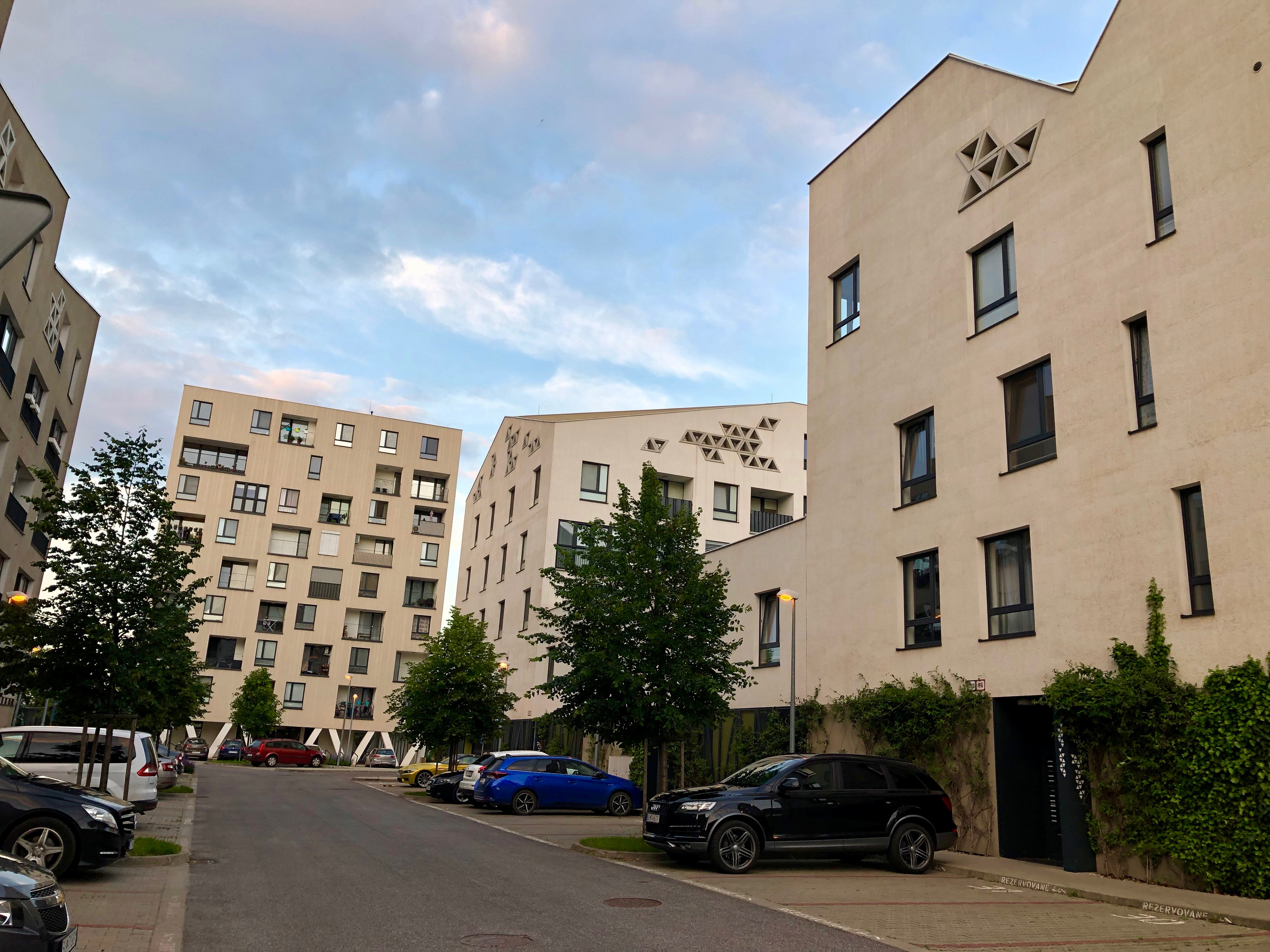 Residential complex called Nová Terasa in Košice, Slovakia